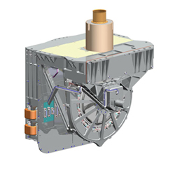 CheMin CAD showing the sample inlet and carousel-like approach for sample handling.